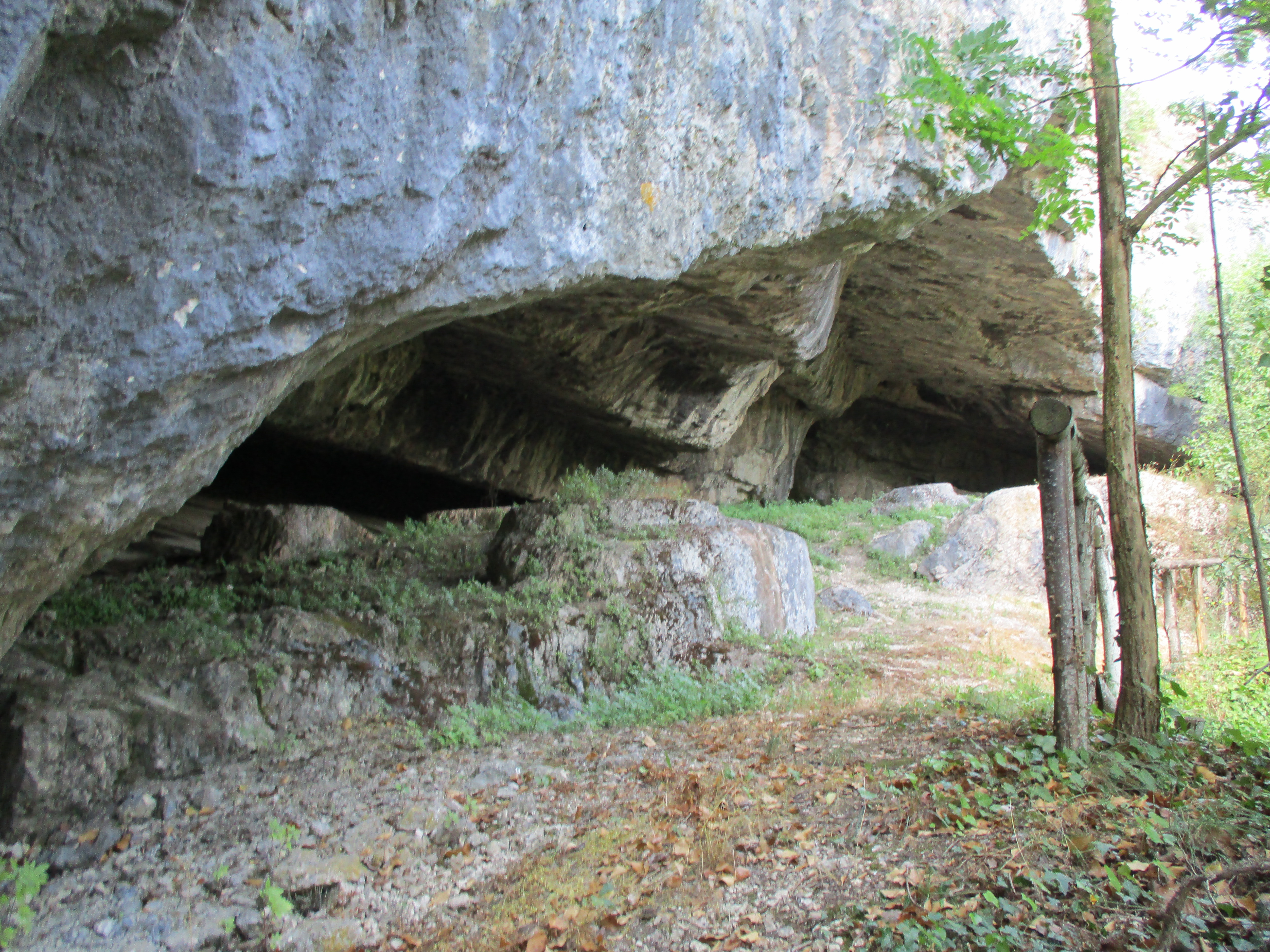 Cave of Ciccio Felice, Avezzano, Abruzzo, Italy